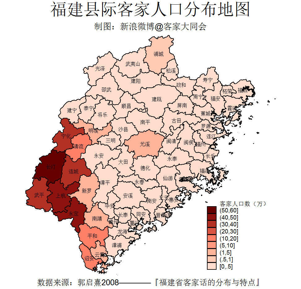 Hakka Population in county level of Fujian